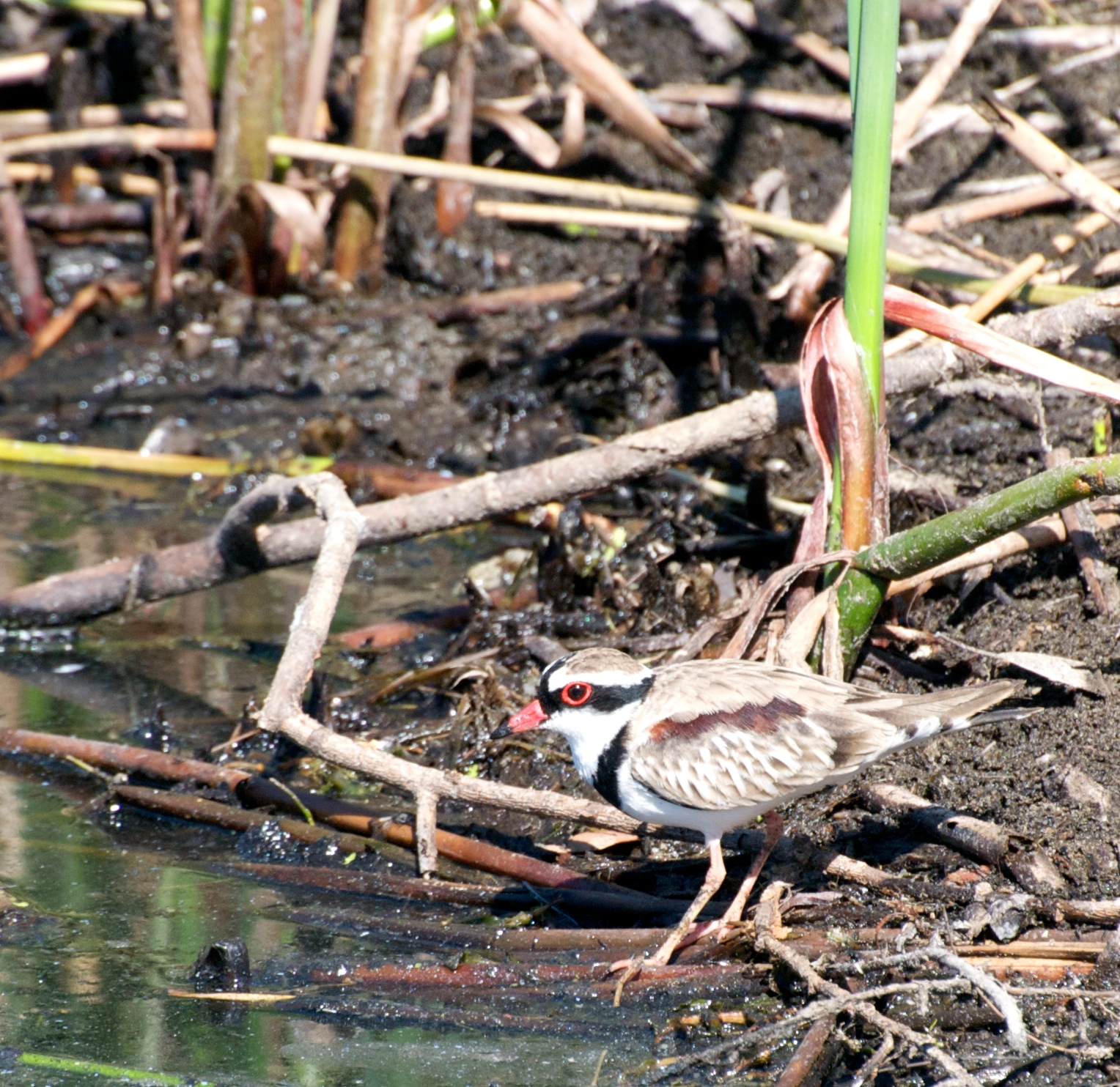 Black-fronted Dotterel at Lake Monger